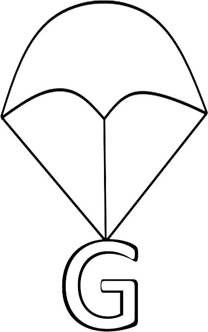 5. Fallschirmjäger Division, German Army, World War II